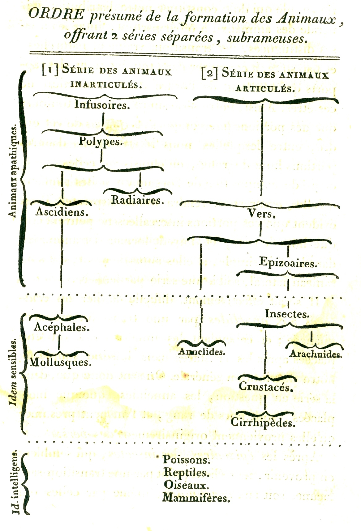 Branching diagram depicting two series of animal origins, from the Histoire naturelle des animaux sans vertèbres of Jean-Baptiste Lamarck (1815)